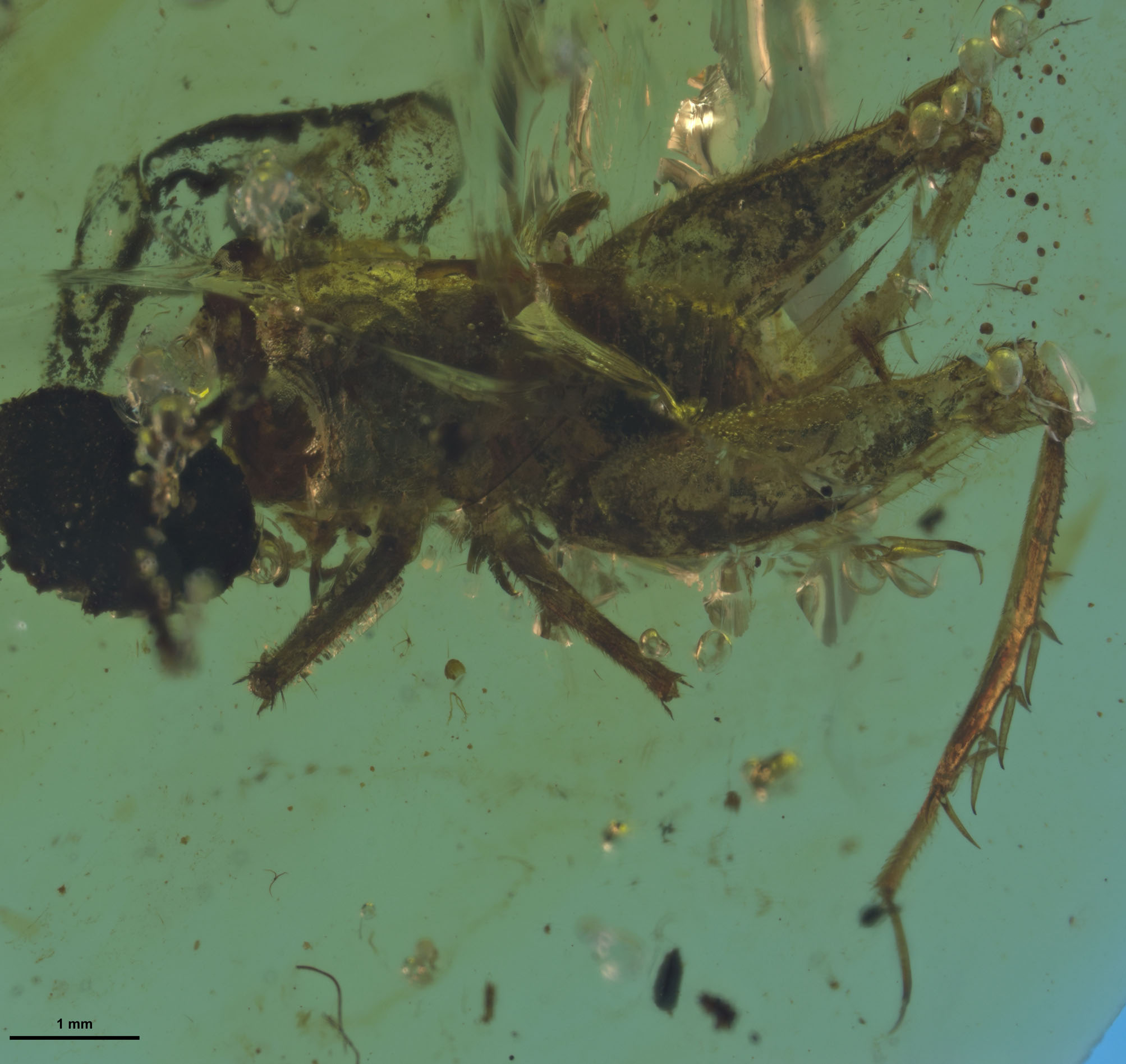 FIGURE 1. Elcanonympha diana, holotype in left lateral view.